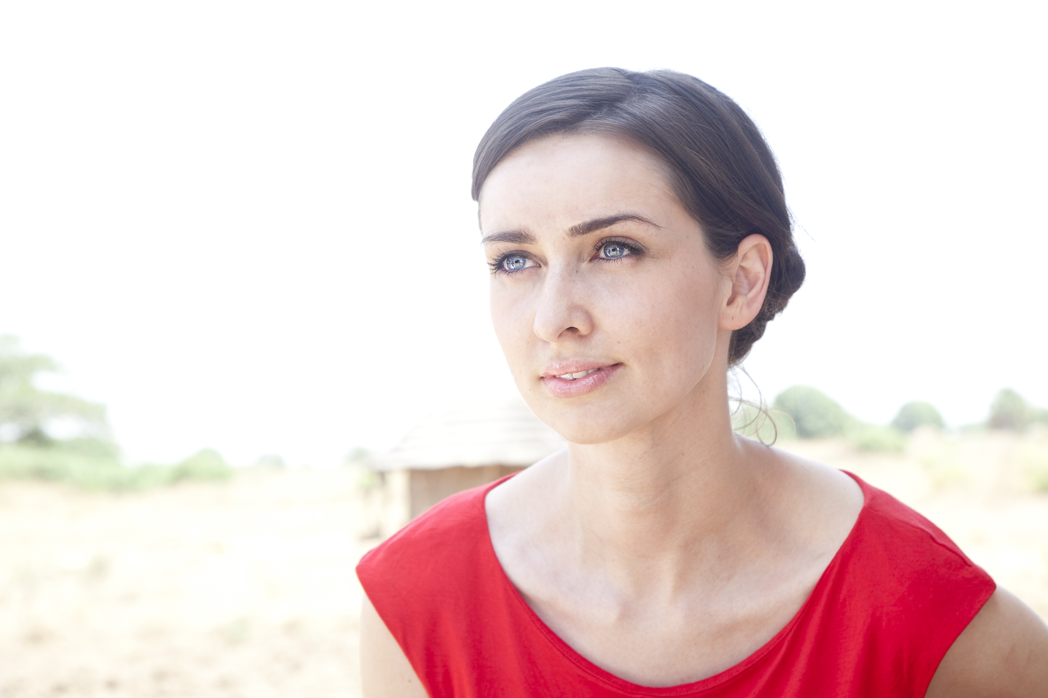 Aoibhinn Ní Shúilleabháin in Soroti, northern Uganda. Aoibhinn visited Trocaire's work in the region as part of its annual Lenten campaign. Photo: Jeannie O'Brien.